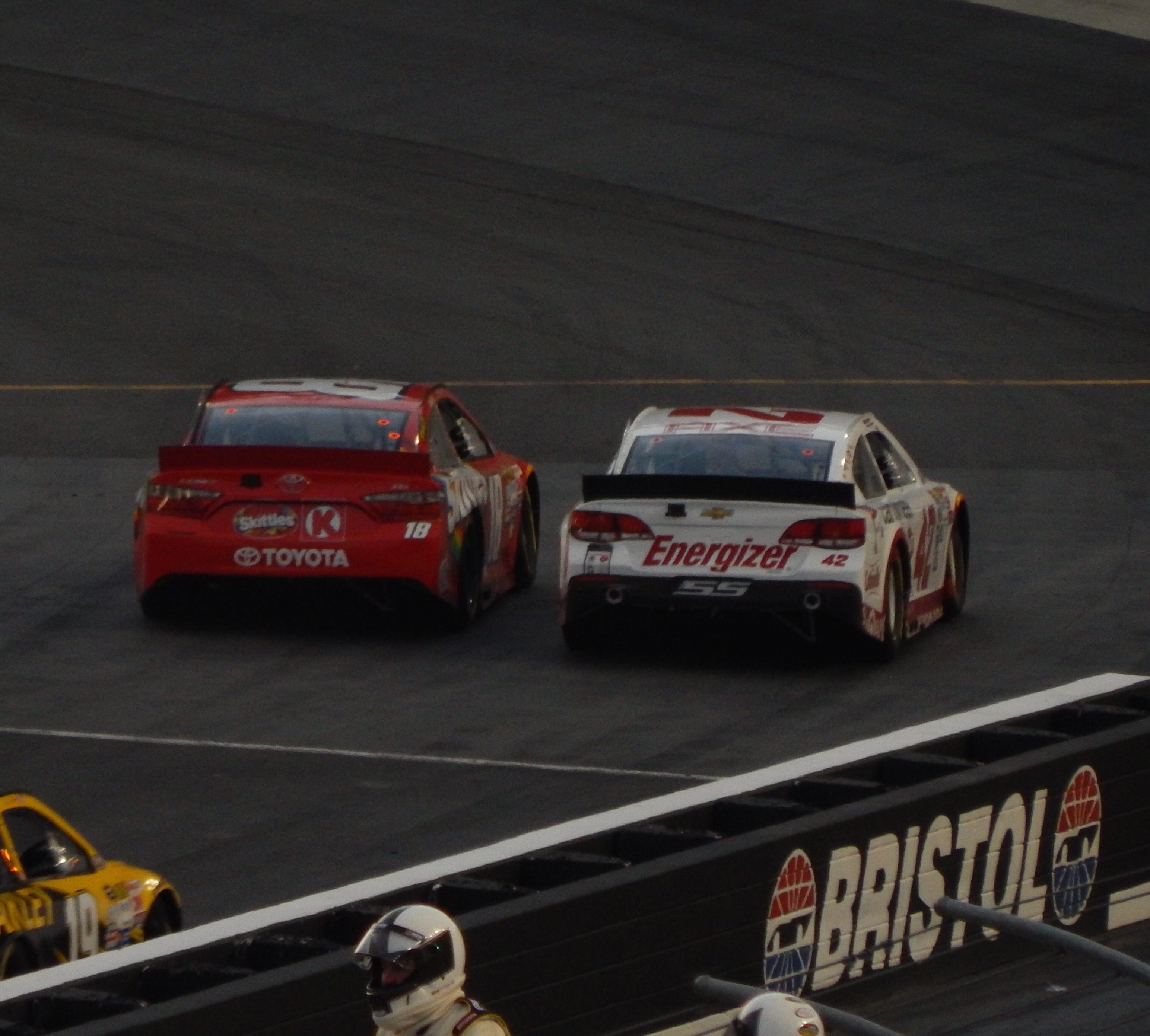 Kyle Busch exited pit road with the lead under the first caution of the 2015 Irwin Tools Night Race.